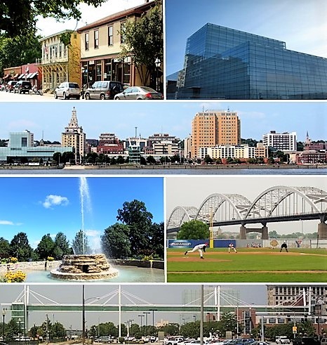 A montage of pictures of the city of Davenport, Iowa.